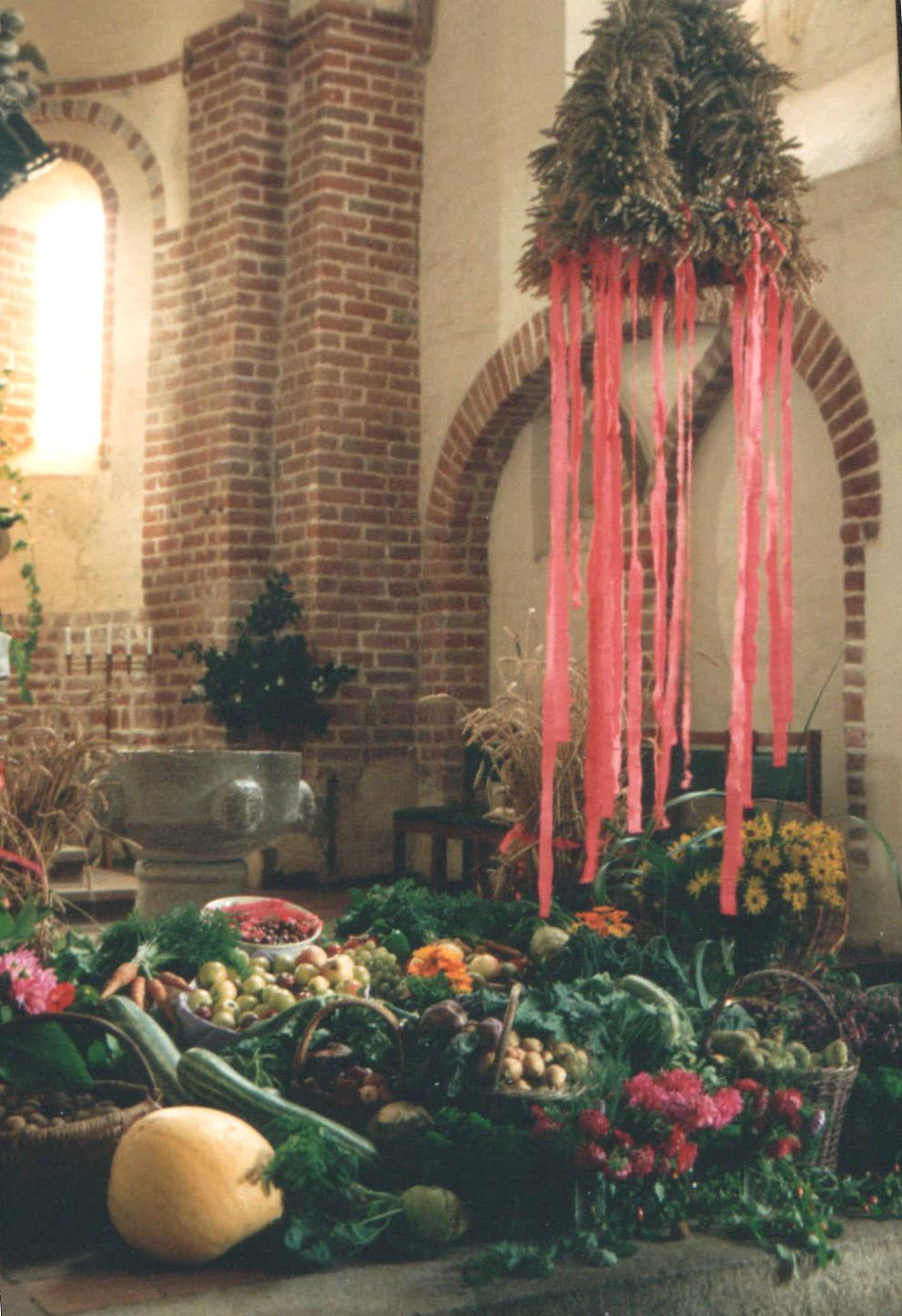 Erntedank Festival at Altenkirchen (Isle of Rügen, Germany)